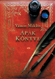 Apak konyve - The Book of Fathers, book cover